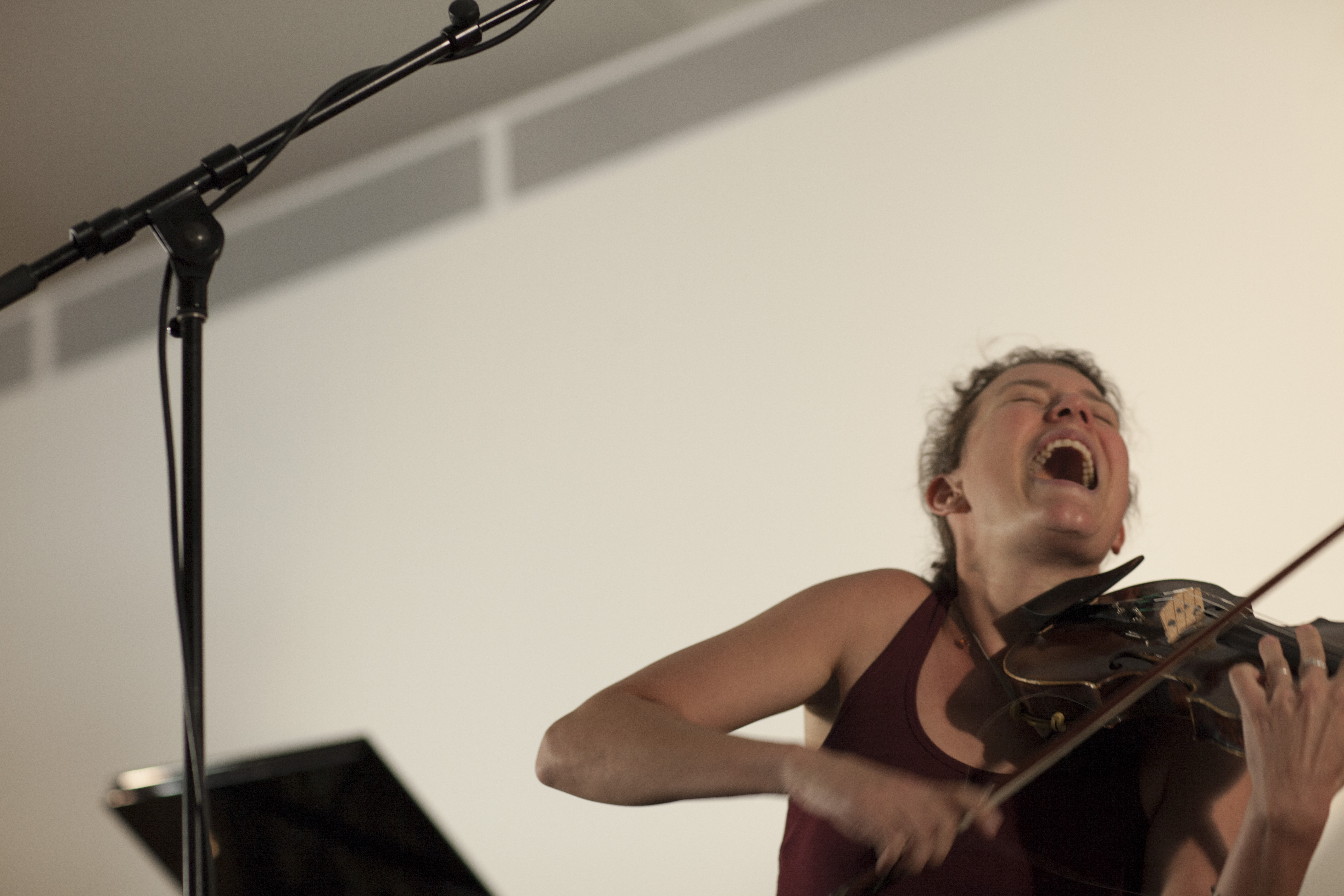 violinist Irene Kepl playing solo at SoundOut Festival 2017 in Canberra